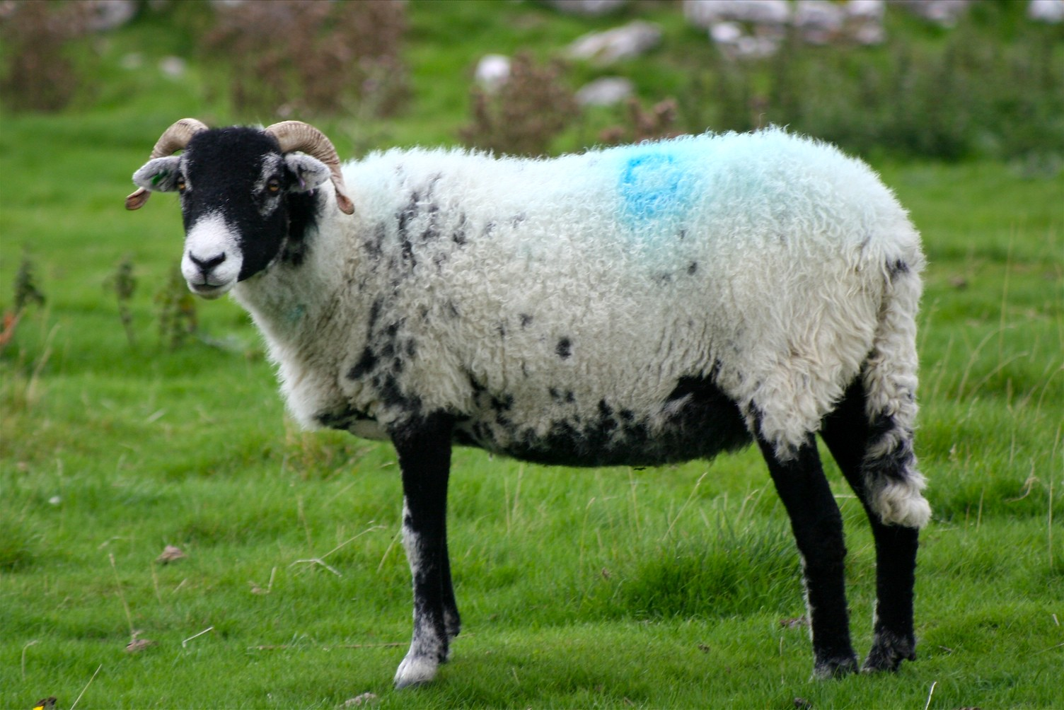 a Swaledale sheep at Malham Cove, Yorkshire.